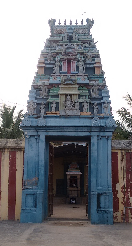 Thilagaipathi temple சிதிலப்பதி முத்தீசுவரர் கோயில்